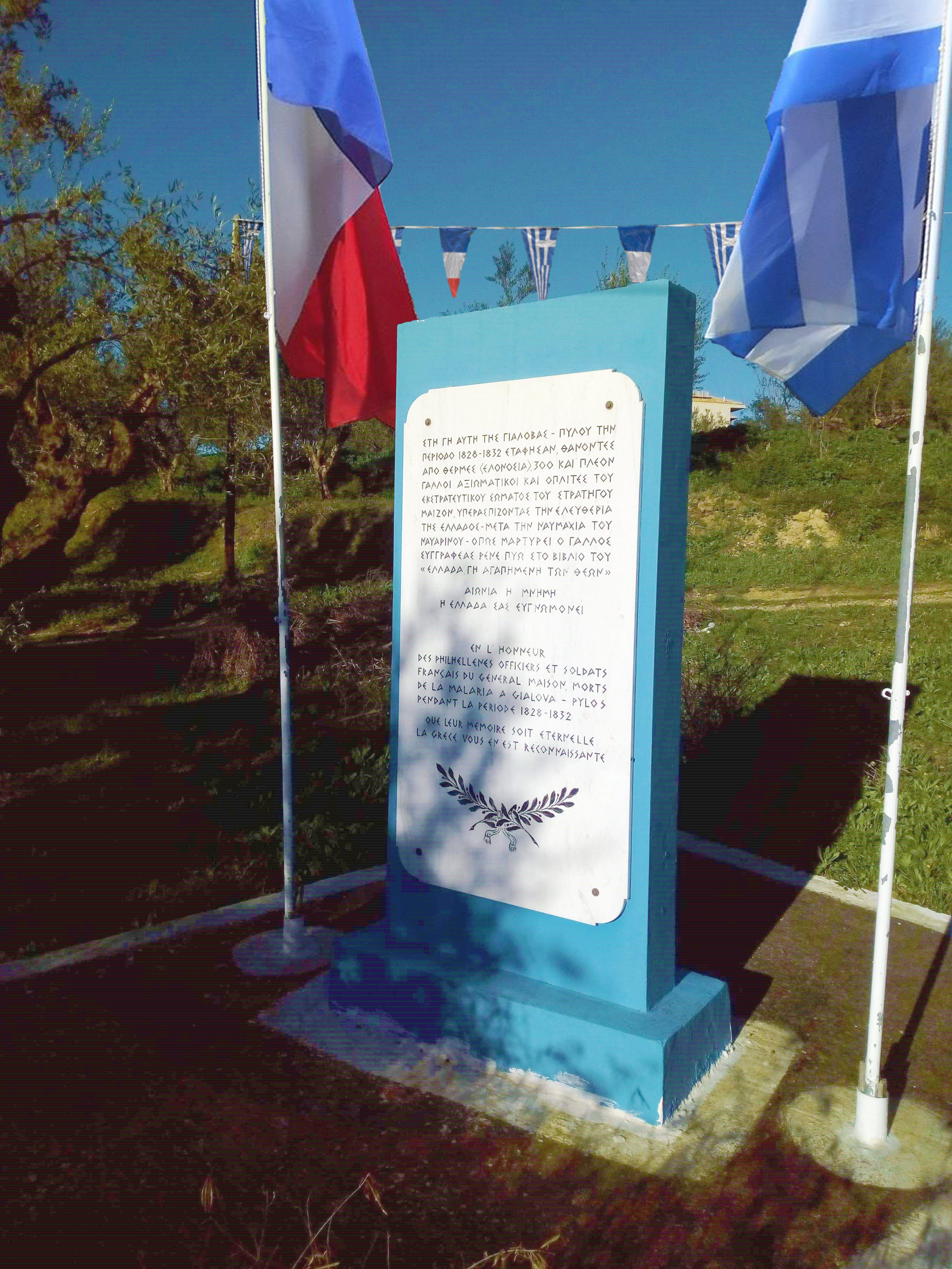 Memorial for the French officers and soldiers of the Morea expedition fallen at Gialova, Messinia, Greece, in 1828-1832. It was inaugurated on 19 October 2007 by the Ambassador of France in Greece Christophe Farnaud, the Mayor of Pylos Georgios D. Chronopoulos and the General Secretary of the Cultural Association of Pylos «ΤΟ ΝΑΥΑΡΙΝΟ» Georgios D. Poulopoulos Engraved in Greek: Στη γη αυτή της Γιάλοβας Πύλου την περίοδο 1828-1832 έφτασαν θανόντες από θέρμες (ελονοσία) 300 και πλέον Γάλλοι αξιωματικοί και οπλίτες του εκστρατευτικού σώματος του Στρατηγού Μαιζών υπερασπίζοντας την ελευθερία της Ελλάδος - μετά την Ναυμαχία του Ναβαρίνου - όπως μαρτυρεί ο Γάλλος συγγραφέας Ρενέ Πυώ στο βιβλίο του «Ελλάδα γη αγαπημένη των θεών». Αἰωνία ἡ μνήμη. Η Ελλάδα σας ευγνωμονεί. Engraved in